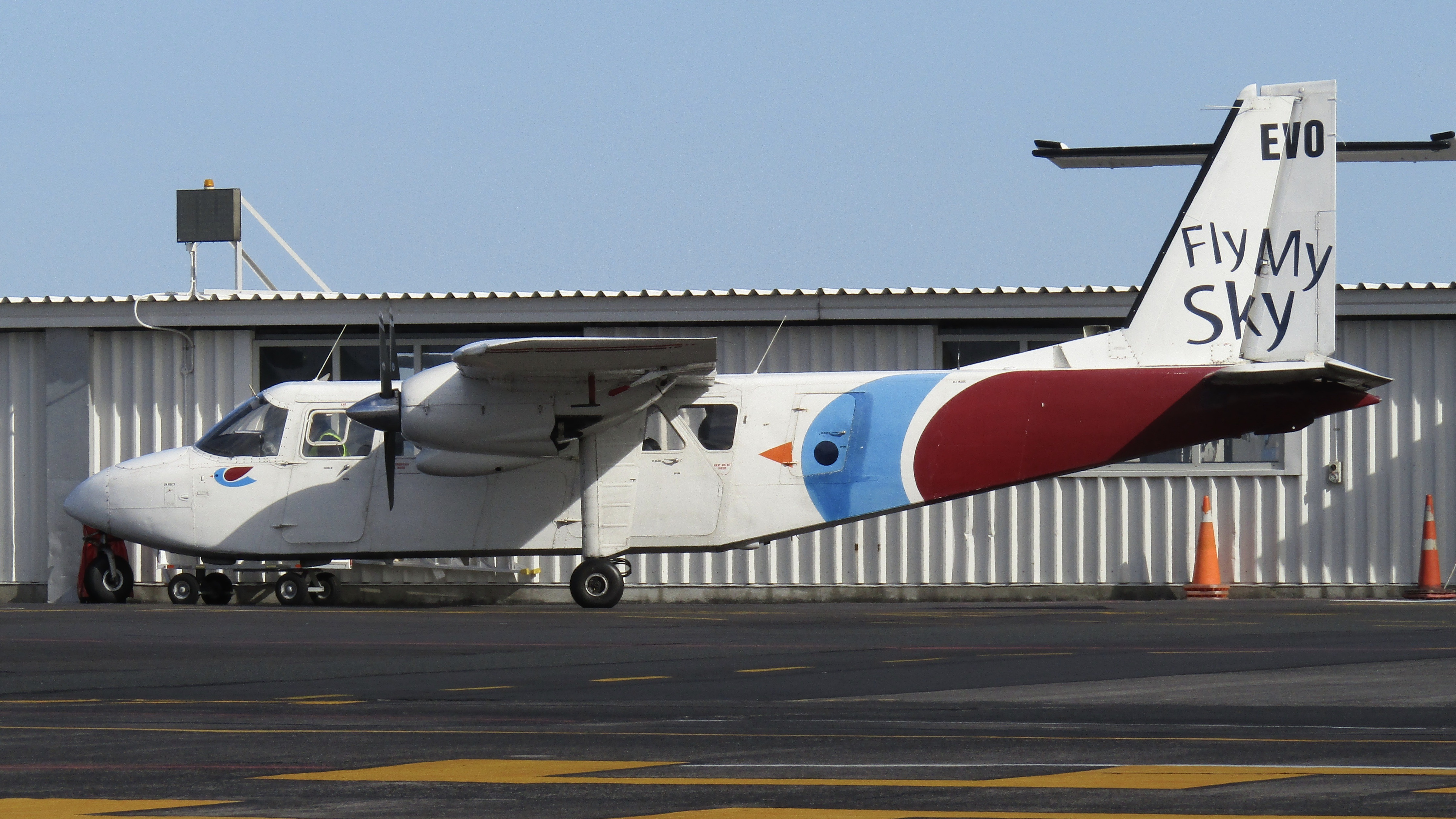 Fly My Sky BN-2B-26 Islander ZK-EVO wearing its unique scheme at Auckland Airport in May 2020 after the end of the COVID-19 lockdown. This aircraft replaced ZK-DLA which was involved in a write-off incident at Okiwi Airfield.